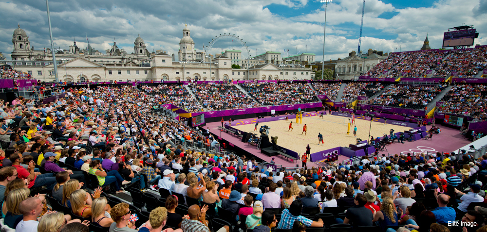 Mens volleyball match spectators look on